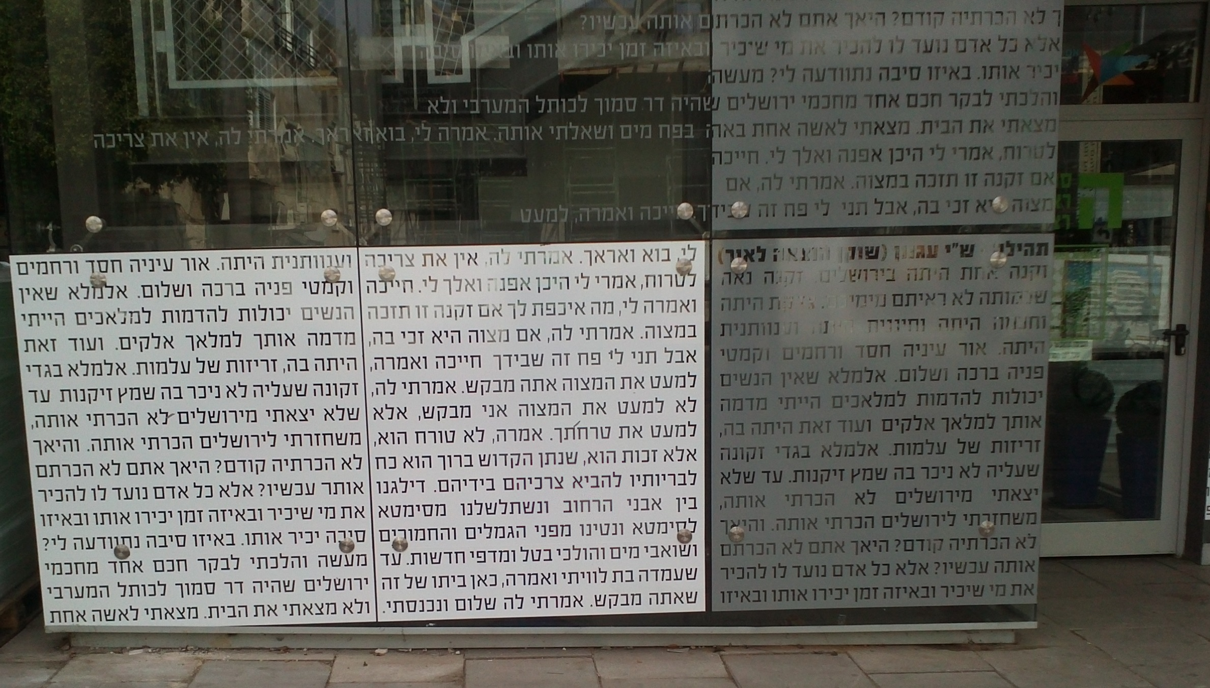 Text of "Tehila" by S.Y. Agnon, at the entrance of Herzliya Library